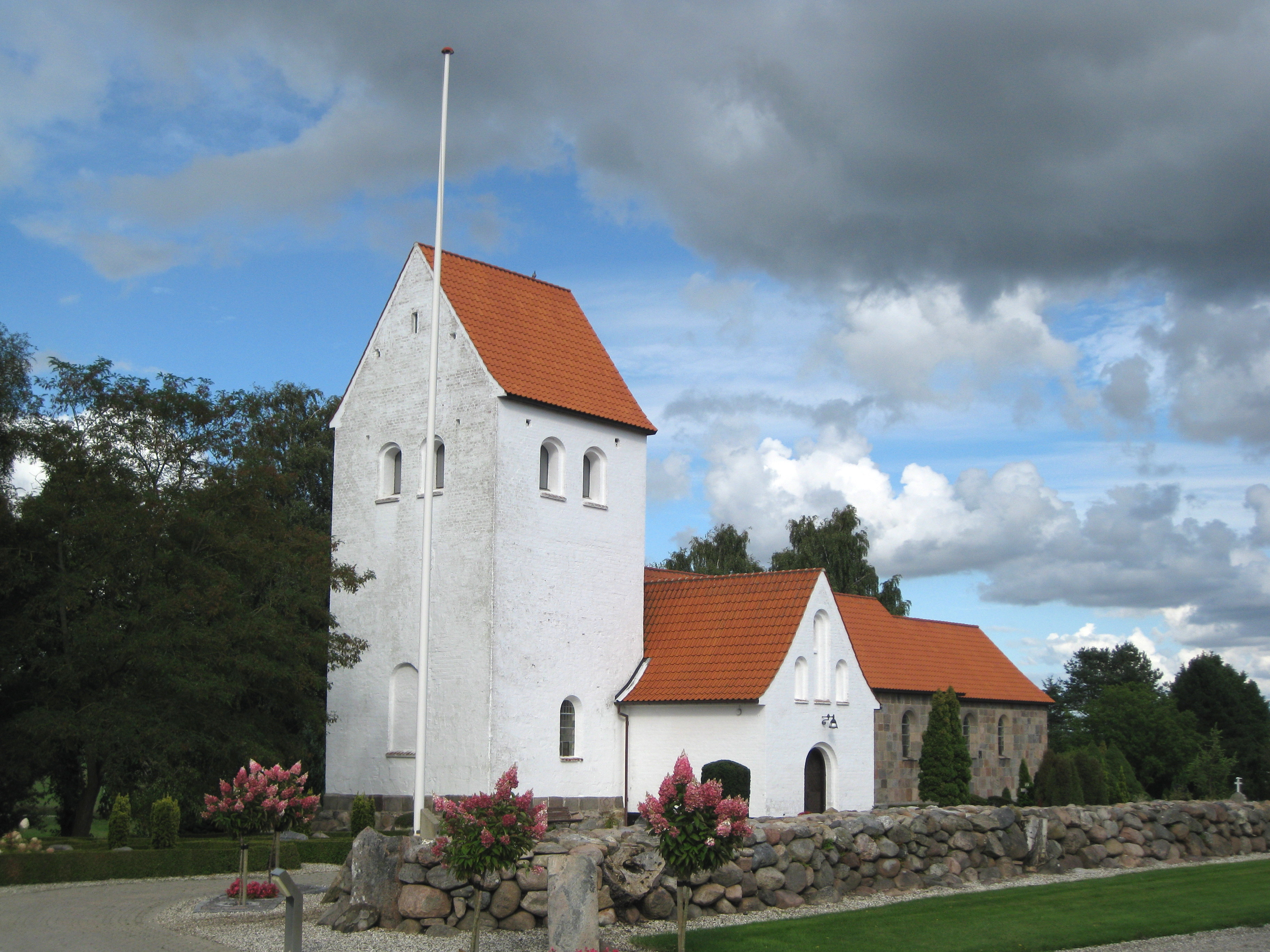 The church "Langå Kirke" in the small town "Langå". It is located in East Jutland, central Denmark.